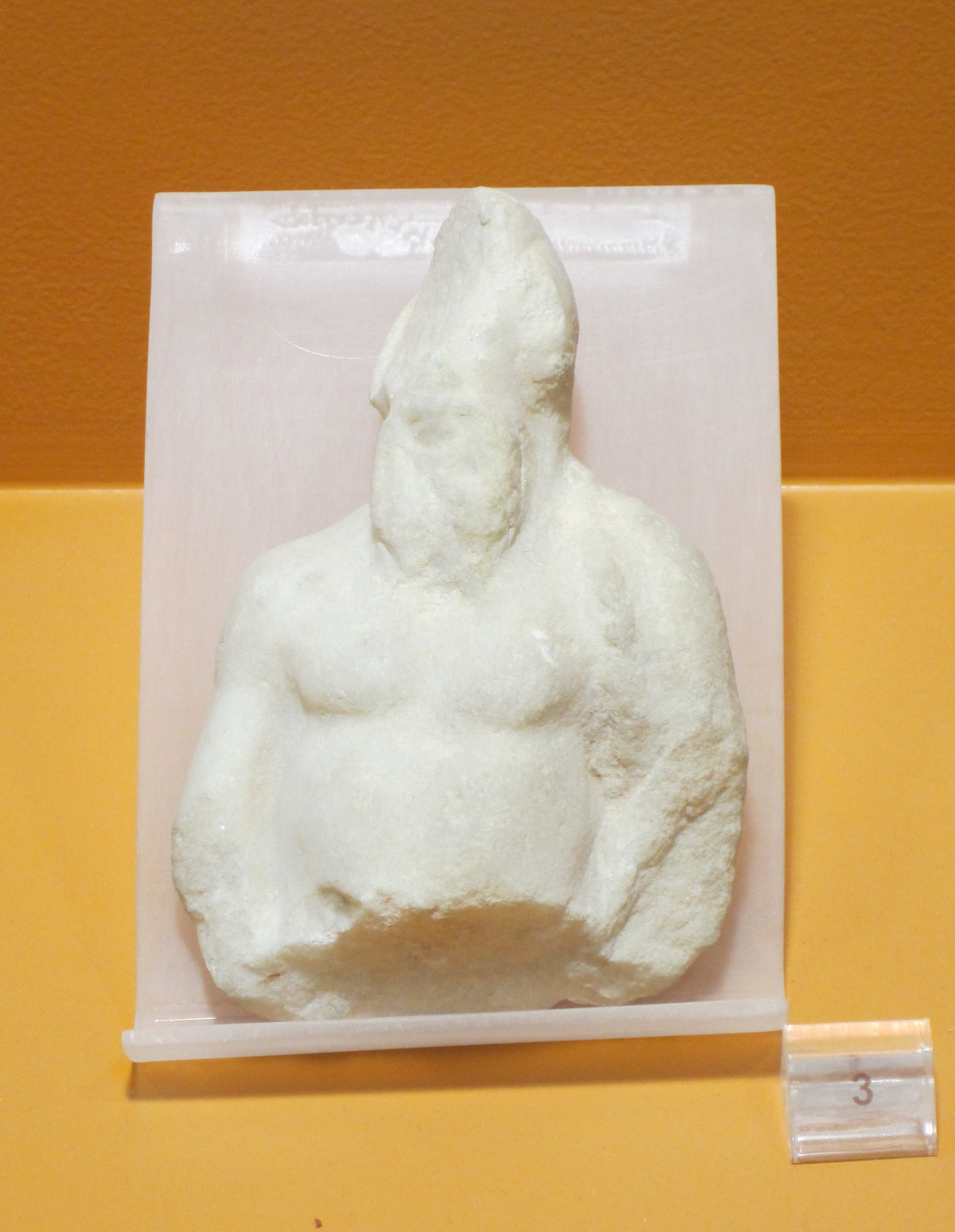 Fragment of a hellenistic marble statuette from Desmotherion i.e. the Ancient Athenian state prison. Possibly representing Socrates. Museum of the Ancient Agora in Athens.